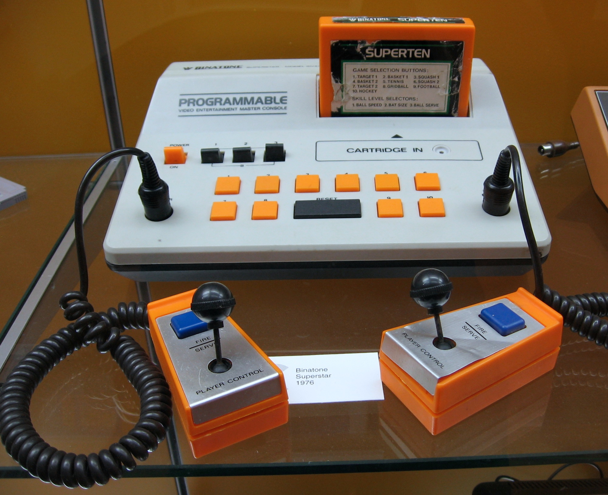 Binatone Superstar - 197? First era console (simil-pong). Every cartrige contains an AY-3-86xx chip. The SUPERTEN cartrige (in the photo) probably contains an AY-3-8610